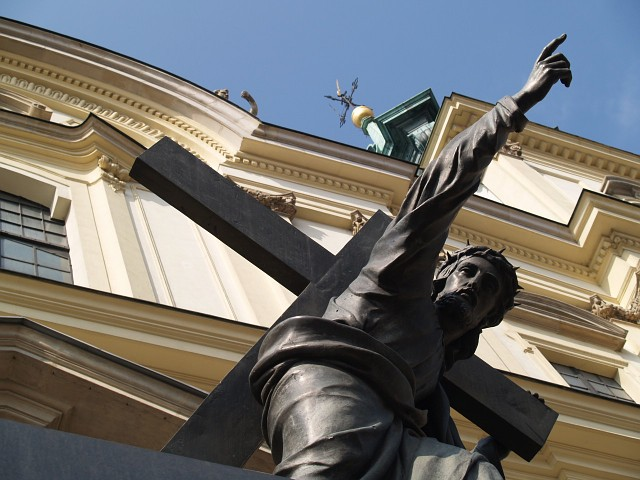 Church of the Holy Cross, Świętokrzyska Street, Warsawa. This monument is one of the striking symbols to the 1944 destruction.